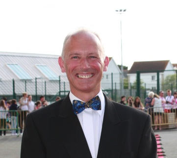 Richard Rolfe at the Les Quennevais Sixth Form Prom